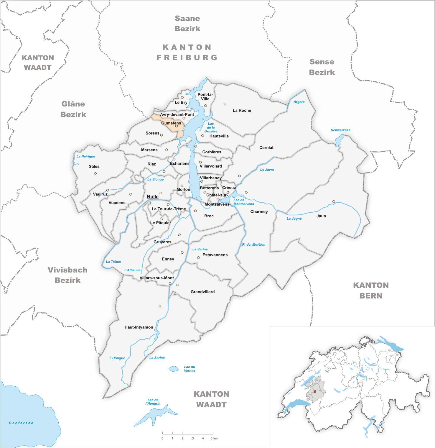 Municipality Gumefens Artist: Tschubby